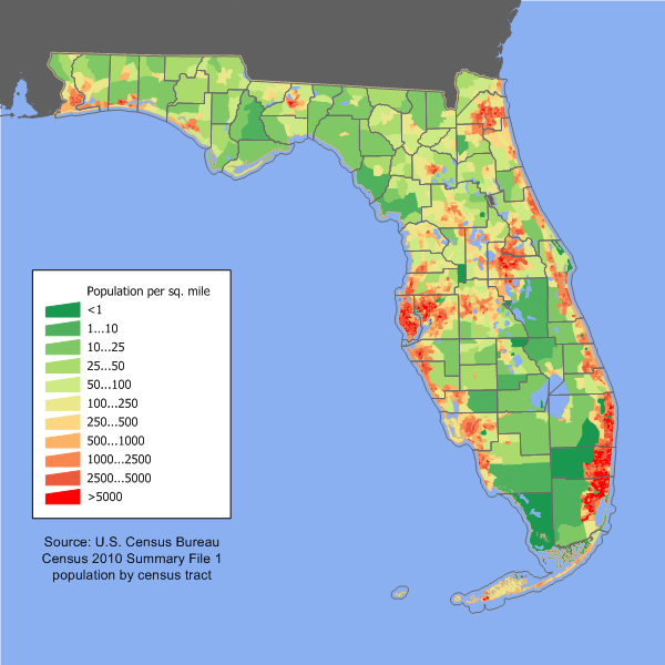 Florida population density map based on Census 2010 data. See the data lineage for the process description.